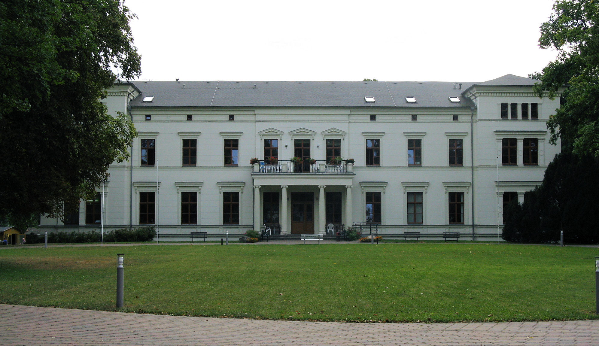 Manor house in Massow, disctrict Mecklenburgische Seenplatte, Mecklenburg-Vorpommern, Germany